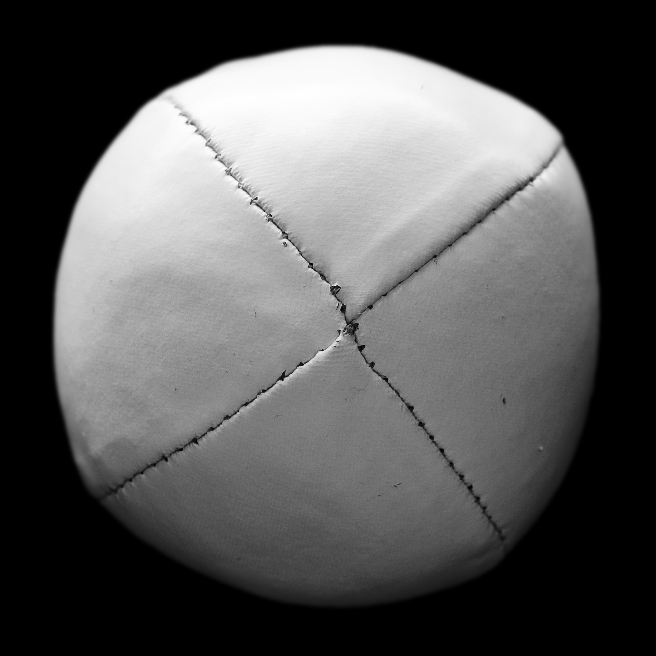 Juggling ball